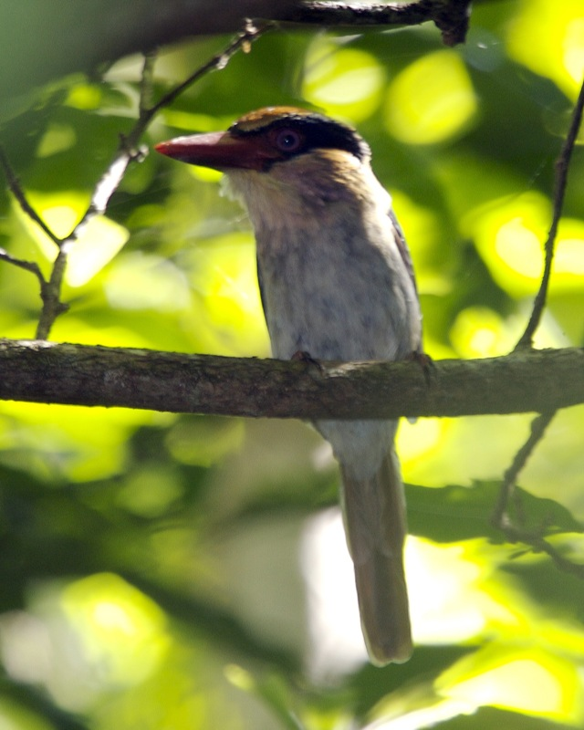 Lilac-marked Kingfisher Cittura cyanotis cyanotis - Female, seen in Tangkoko Nature Reserve, North Sulawesi, Indonesia, 9 July 2006 Habitat